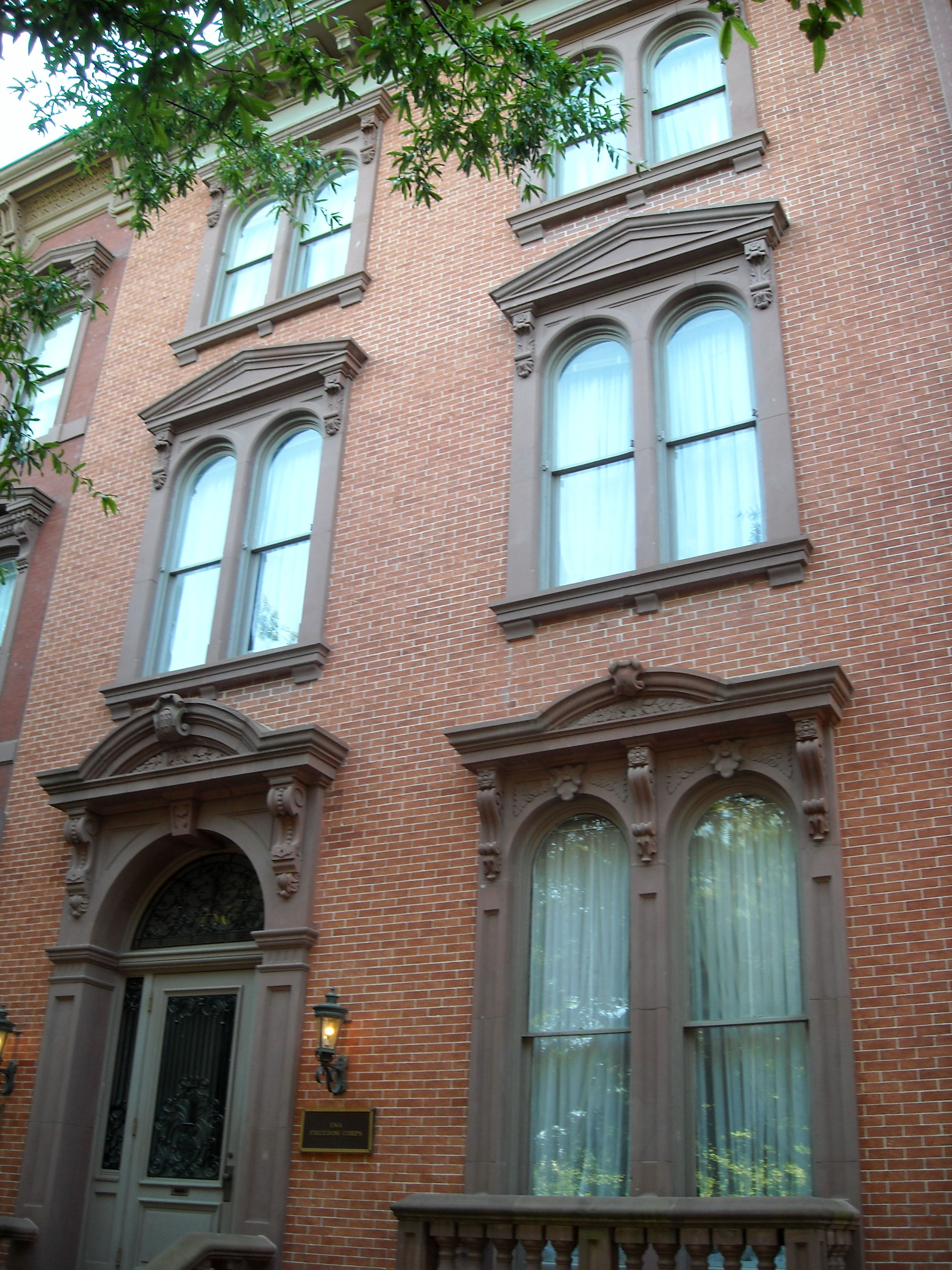 USA Freedom Corps Building on Jackson Place in Washington, D.C.